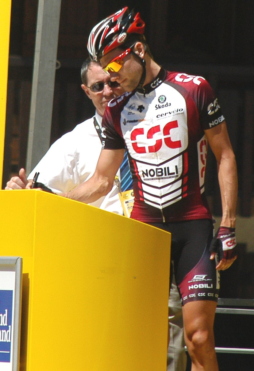 David Zabriskie at the start of stage 8 in Le Grand Bornand, Tour de France 2007.